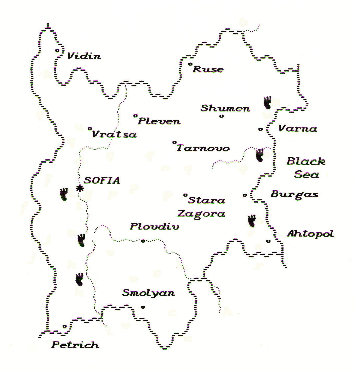 Charter '89 for Preservation of the Bulgarian Nature Heritage, Ecoglasnost, 1989, Map